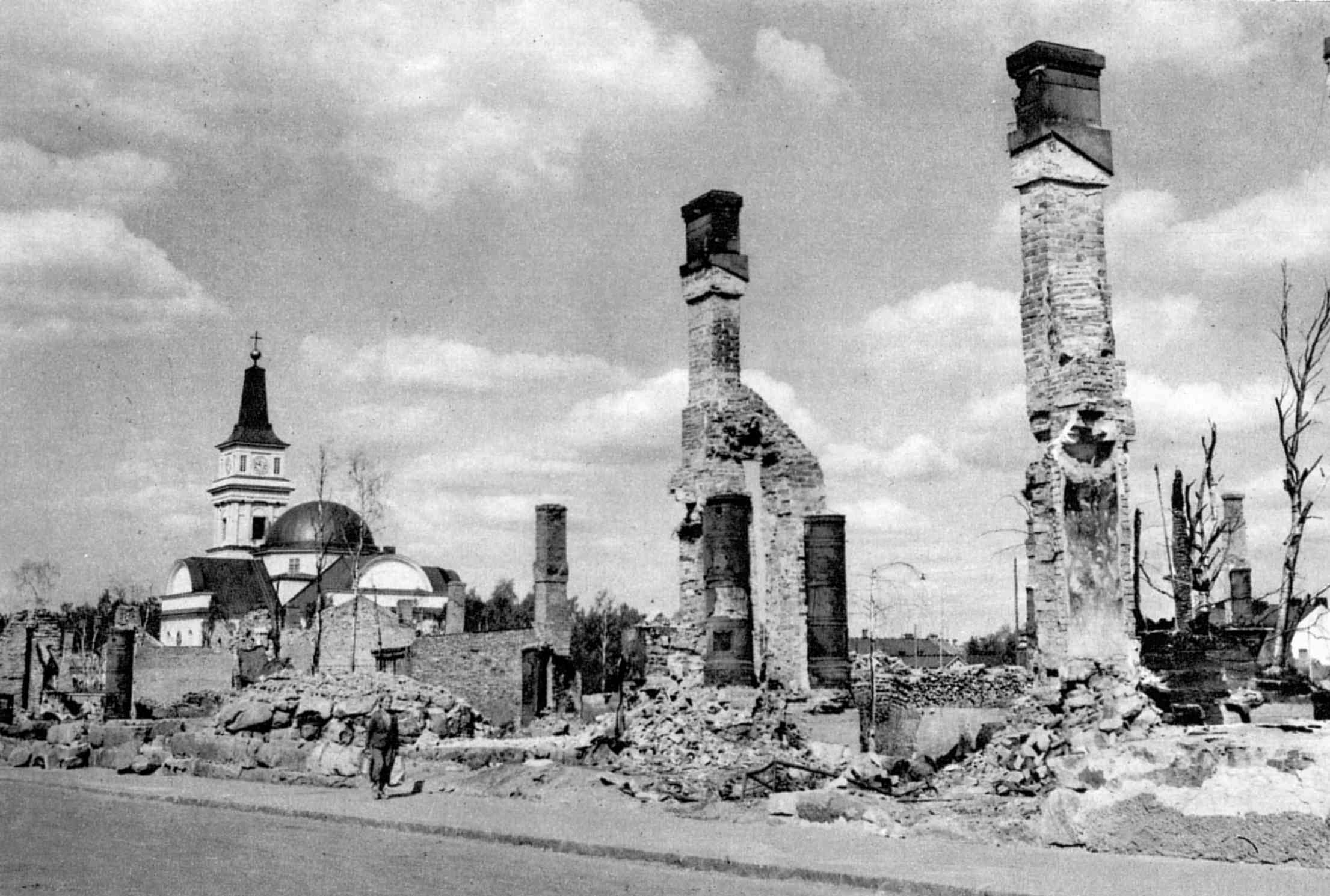 City of Oulu, Finland: Kajaaninkatu after an Soviet air raid in 1944.